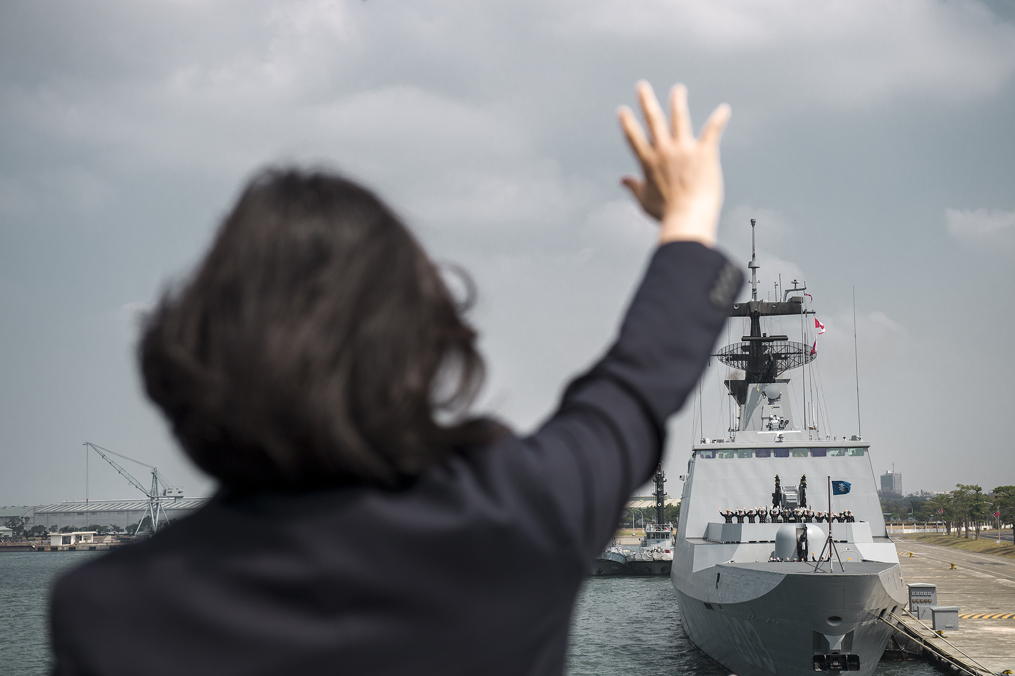 授權方式及範圍：中華民國總統府│政府網站資料開放宣告 Authorization Method & Scope: Office of the President, Republic of China (Taiwan) | Government Website Open Information Announcement